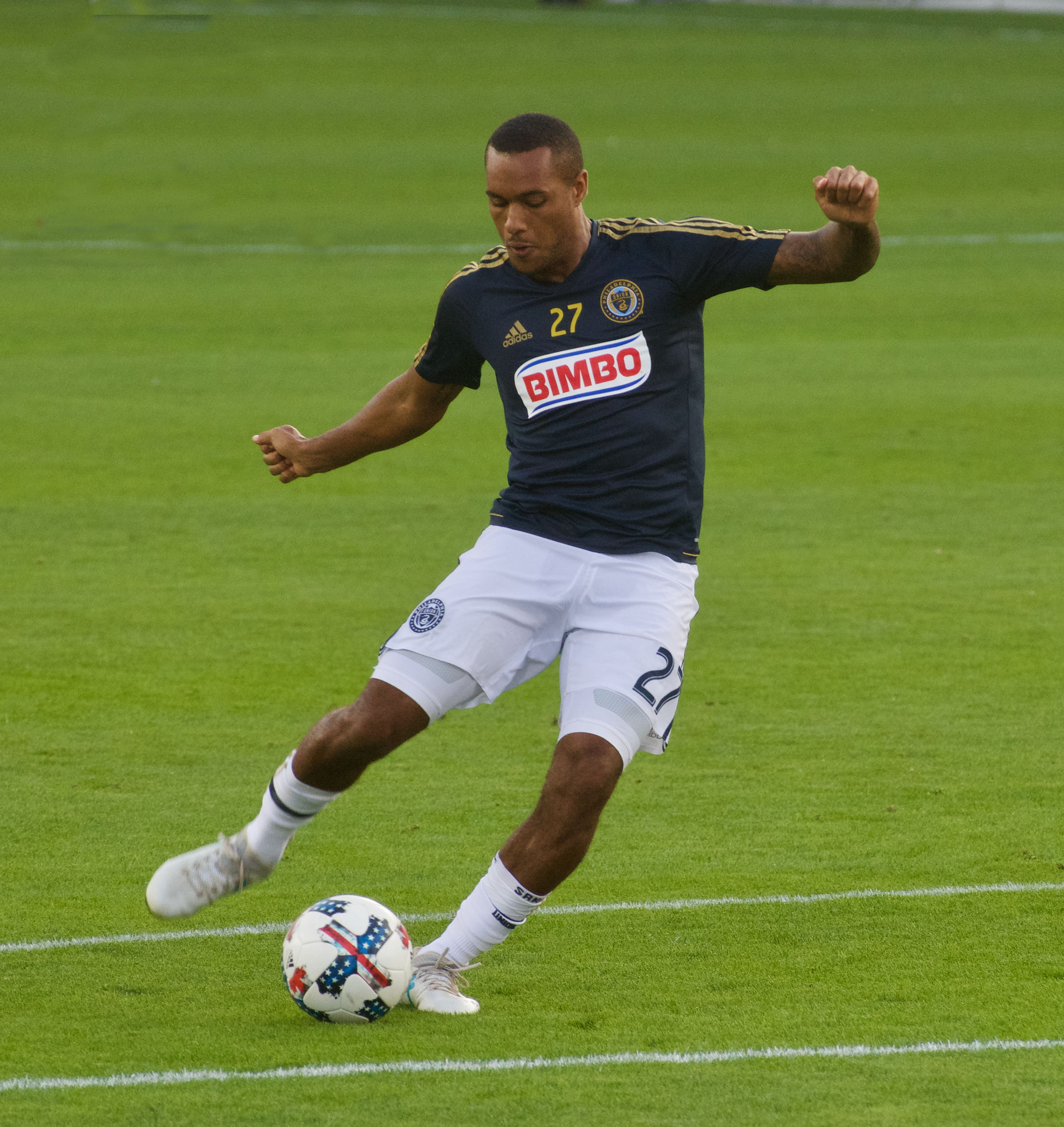 Jay Simpson warming up pre-game for Philadelphia Union at Avaya Stadium on 19 August 2017.